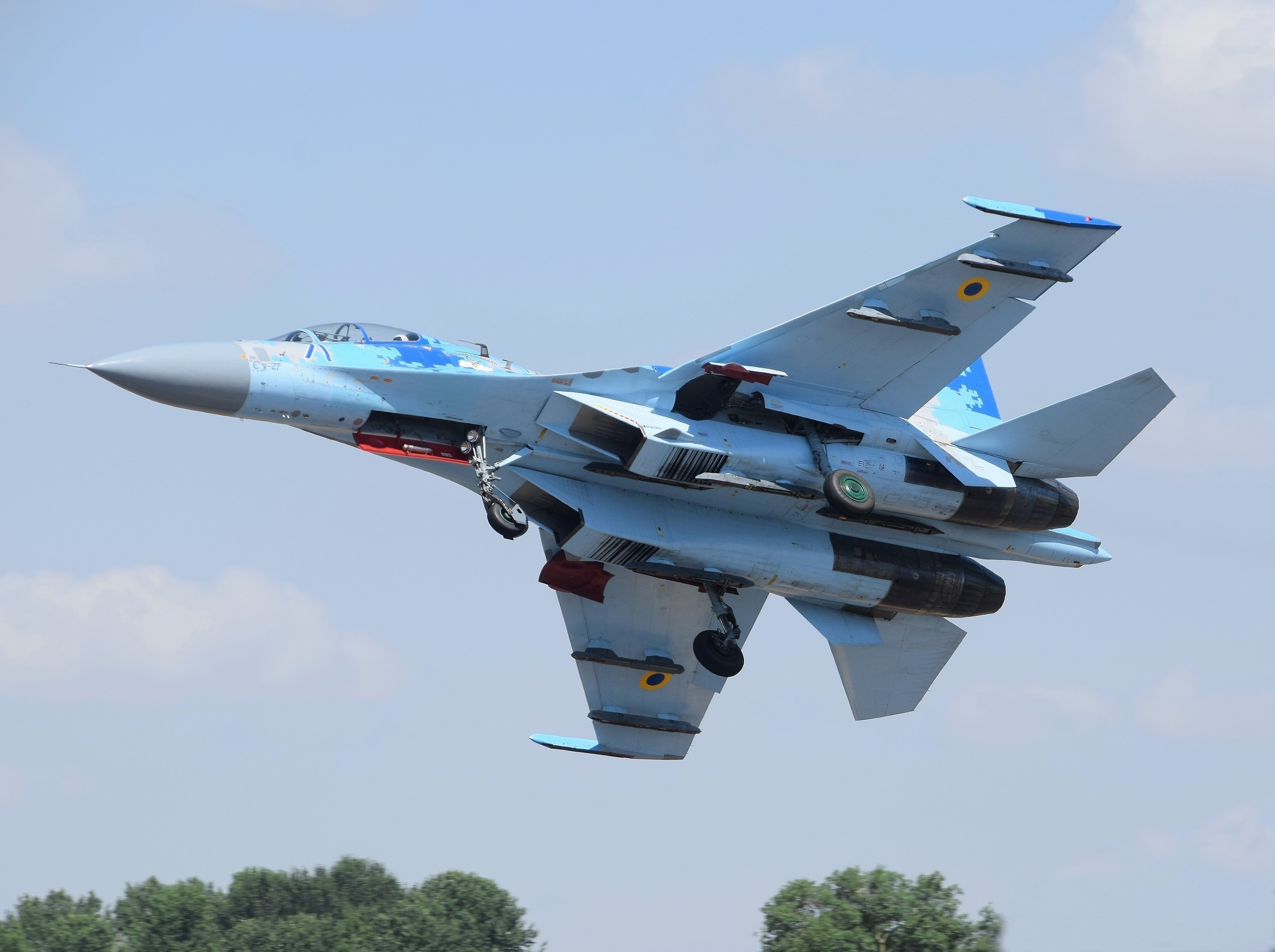 Sukhoi Su-27UB (serial 71) of the Ukrainian Air Force lands at the 2018 Royal International Air Tattoo, RAF Fairford, England. The Nato reporting name of the Su-27UB is Flanker-C. This aircraft is a 2-seat combat trainer on the strength of the 831st Tactical Aviation Brigade, based at Myrhorod in central Ukraine. UB means, in Russian, Uchebro Boevoy (= combat trainer).